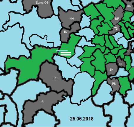 Local map of MPs (members of the House of Commons) who voted for a 3rd runway at London Heathrow (pale blue), against (green), absent/abstained on 25 June 2018 (grey). The motion was carried 415 Ayes; 119 Noes across UK members.